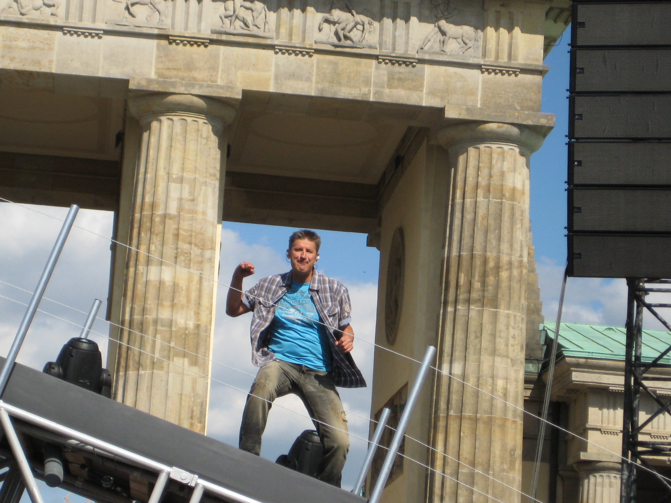 Hartmut Engler (PUR) at Brandenburger Tor